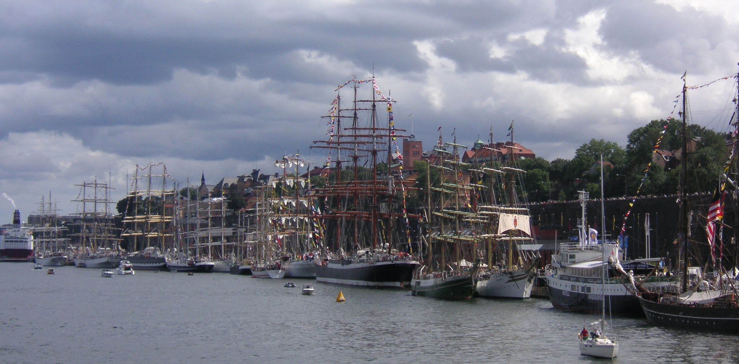 Tall ships races in Stockholm 2007